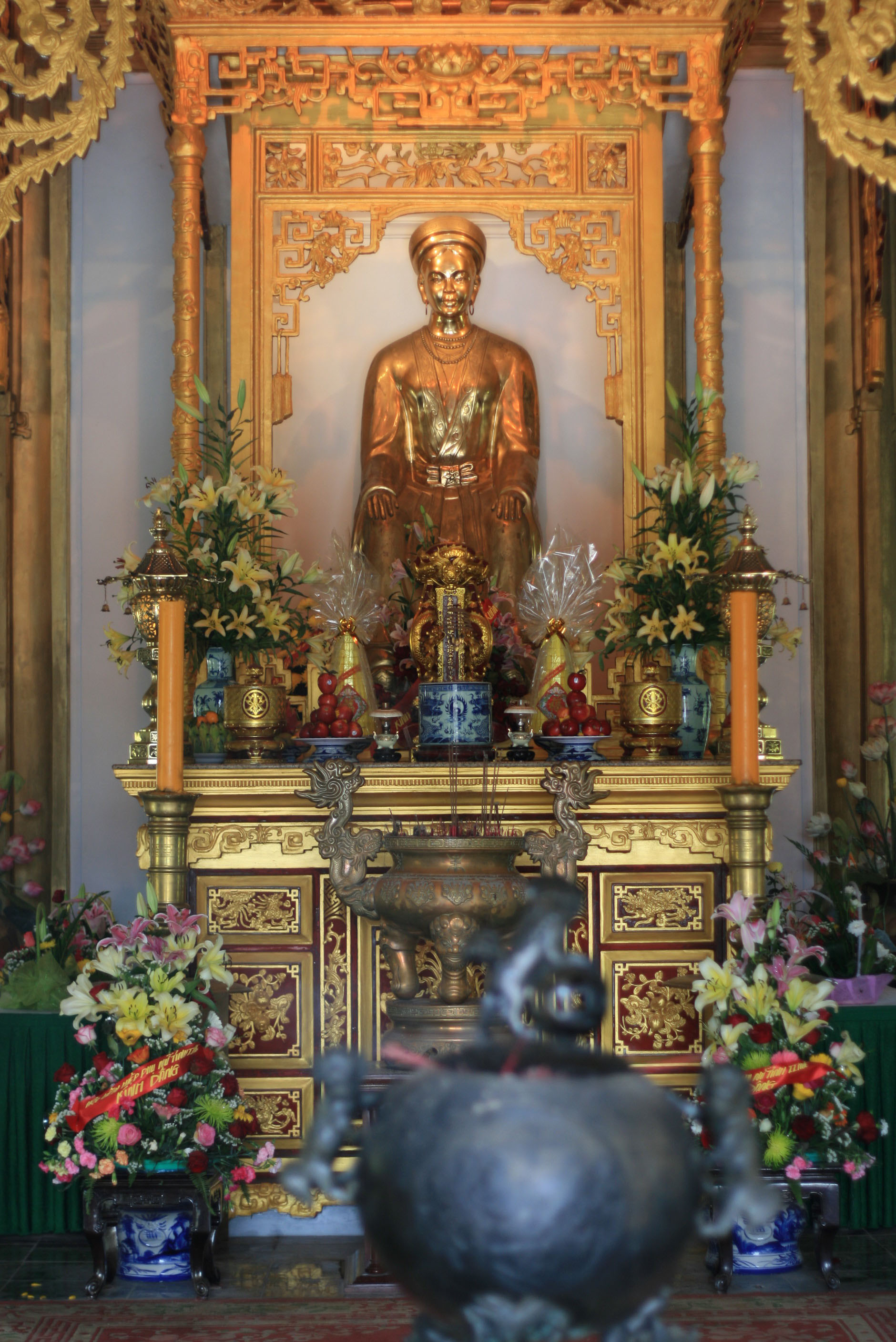 Huyen Tran, was a princess during the Trần Dynasty in the history of Vietnam.